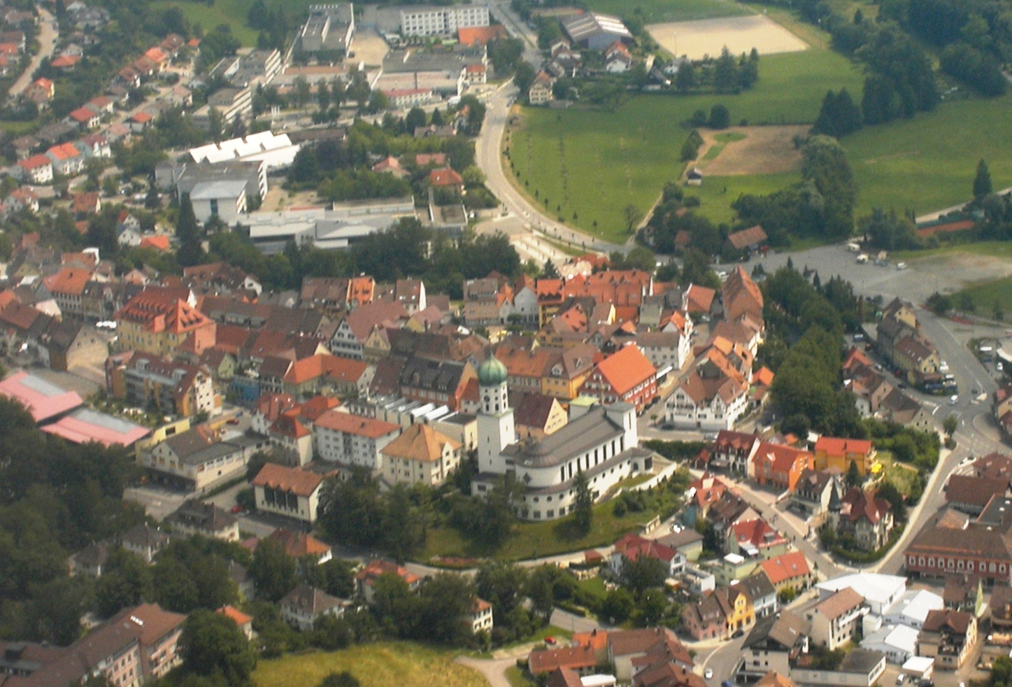 sky shot of Stockach